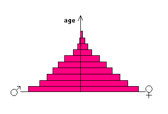 Diagram of a triangular population pyramid, created by Viki Male 15/09/04